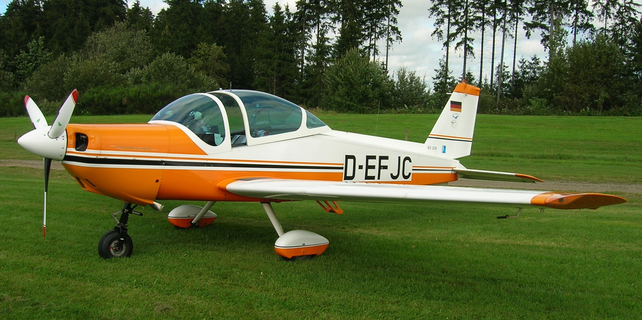 A Bölkow Bo 209 during the „Bergfliegen 2011“ at Schmallenberg airfield. (cropped and rotated)